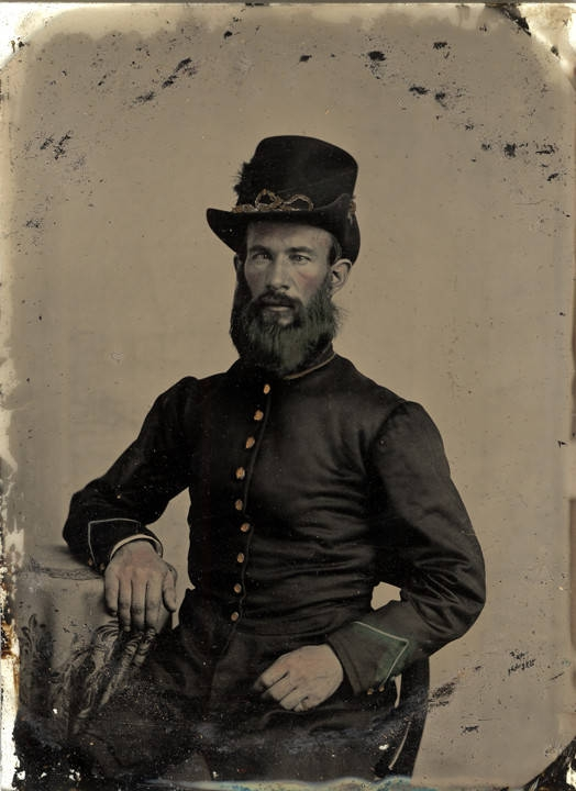 John F. Gaines, as 1st Lieutenant, Montgomery Mounted Rifles, Co. B, 1st Alabama Cavalry, C.S.A., Alabama Department of Archives and History; later Lt. Col. of the 53rd Alabama Cavalry Partisan Rangers